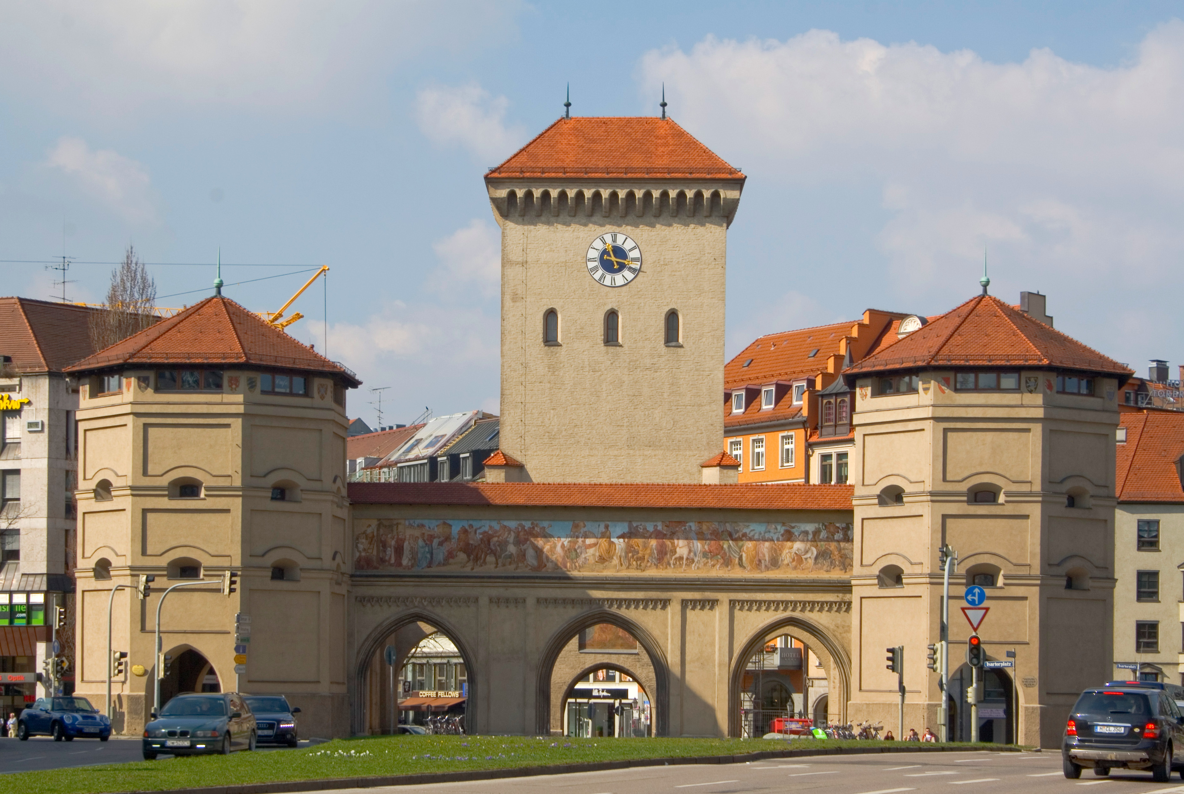 Isartor, Munich, Germany